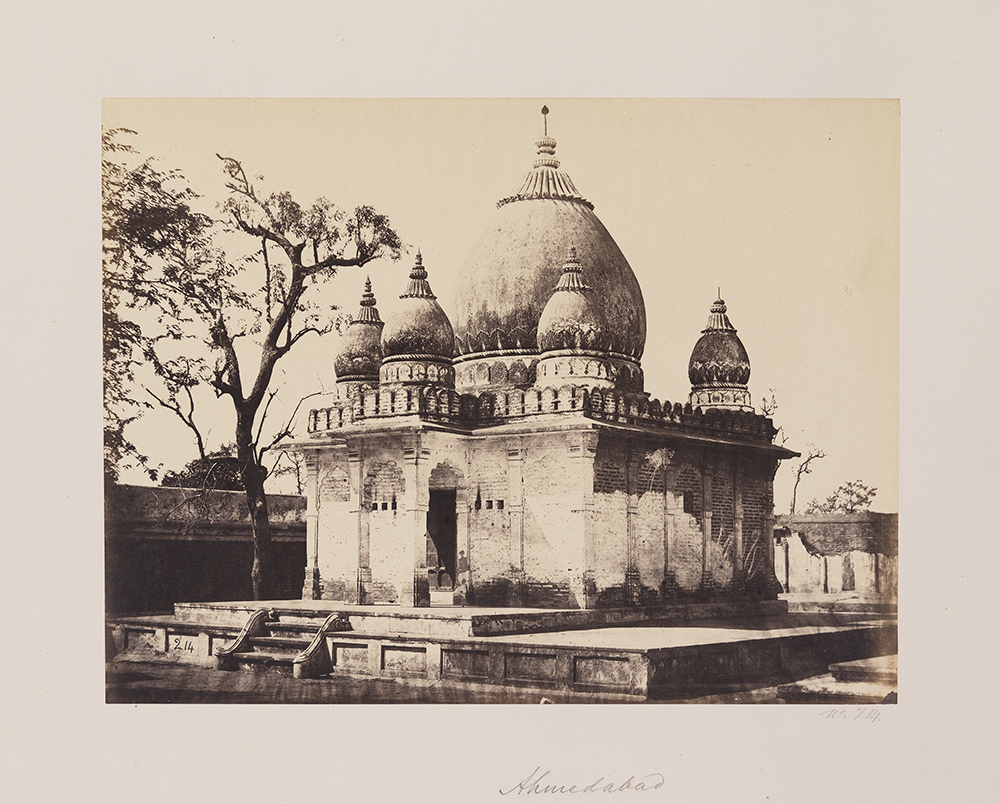 Title: Ahmedabad Alternative Title: [Nawab Sardar Khan’s Rouza] Creator: William Johnson Date: ca. 1855-1862 Series: Photographs of Western India. Volume III. Scenery, Public Buildings, &c. Part of: Photographs of Western India Place: Ahmedabad, Gujarat, India Physical Description: 1 photographic print: albumen; 20 x 26 cm on 35 x 42 cm mount File: vault_ag2002_1407x_3_214_ahmedabad_opt.jpg Rights: Please cite Southern Methodist University, Central University Libraries, DeGolyer Library when using this image file. A high-quality version of this file may be obtained for a fee by contacting . For more information and to view the image in high resolution, see: View Europe, India, and Asia: Photographs, Manuscripts, and Imprints